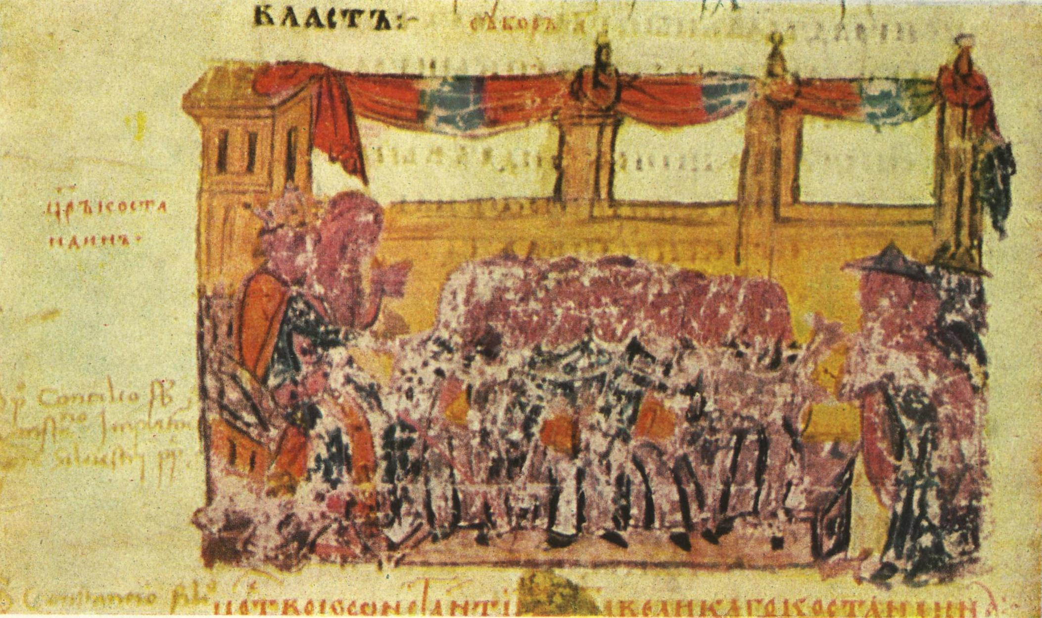 Miniature 30 from the Constantine Manasses Chronicle, 14 century: First ecumenical council.